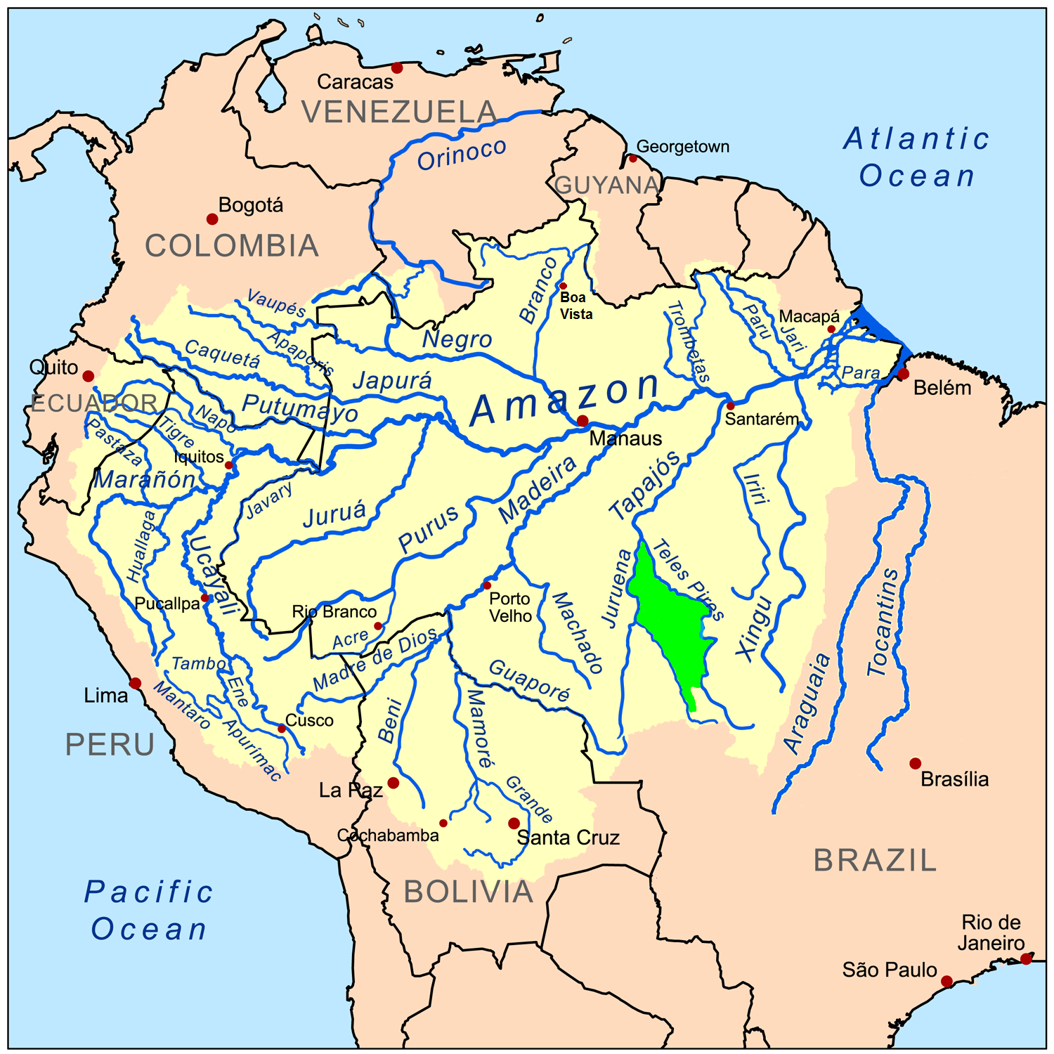 Distribution of Plecturocebus grovesi